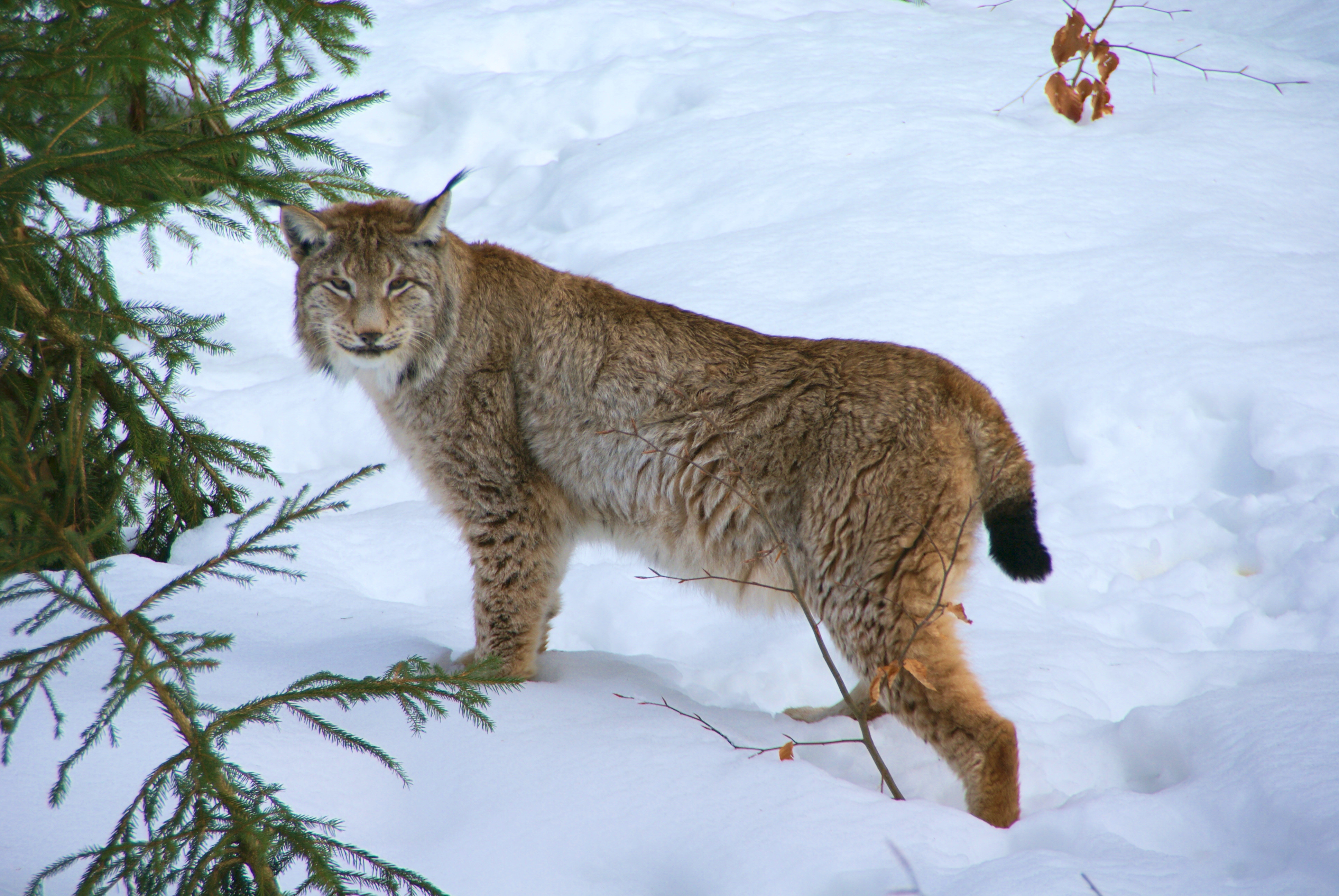 Lynx in National Park Bavarian Forest